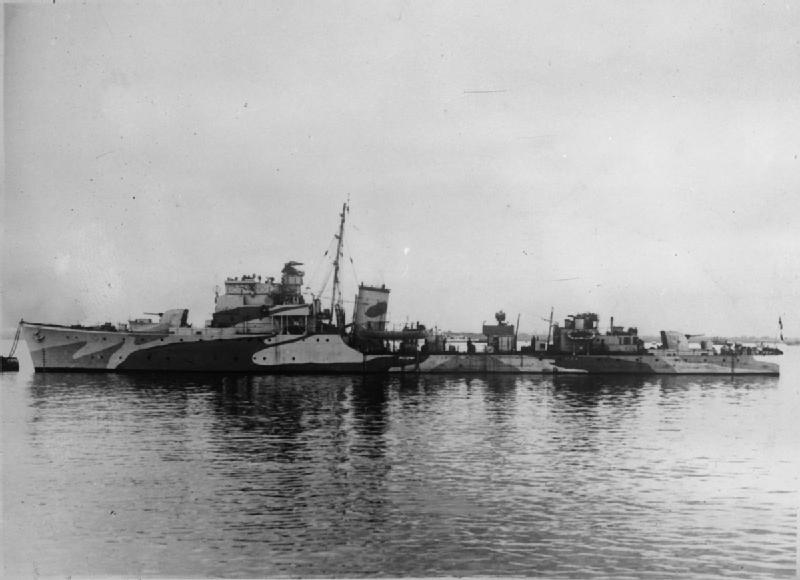 Photograph of British Hunt class destroyer HMS Cotswold.